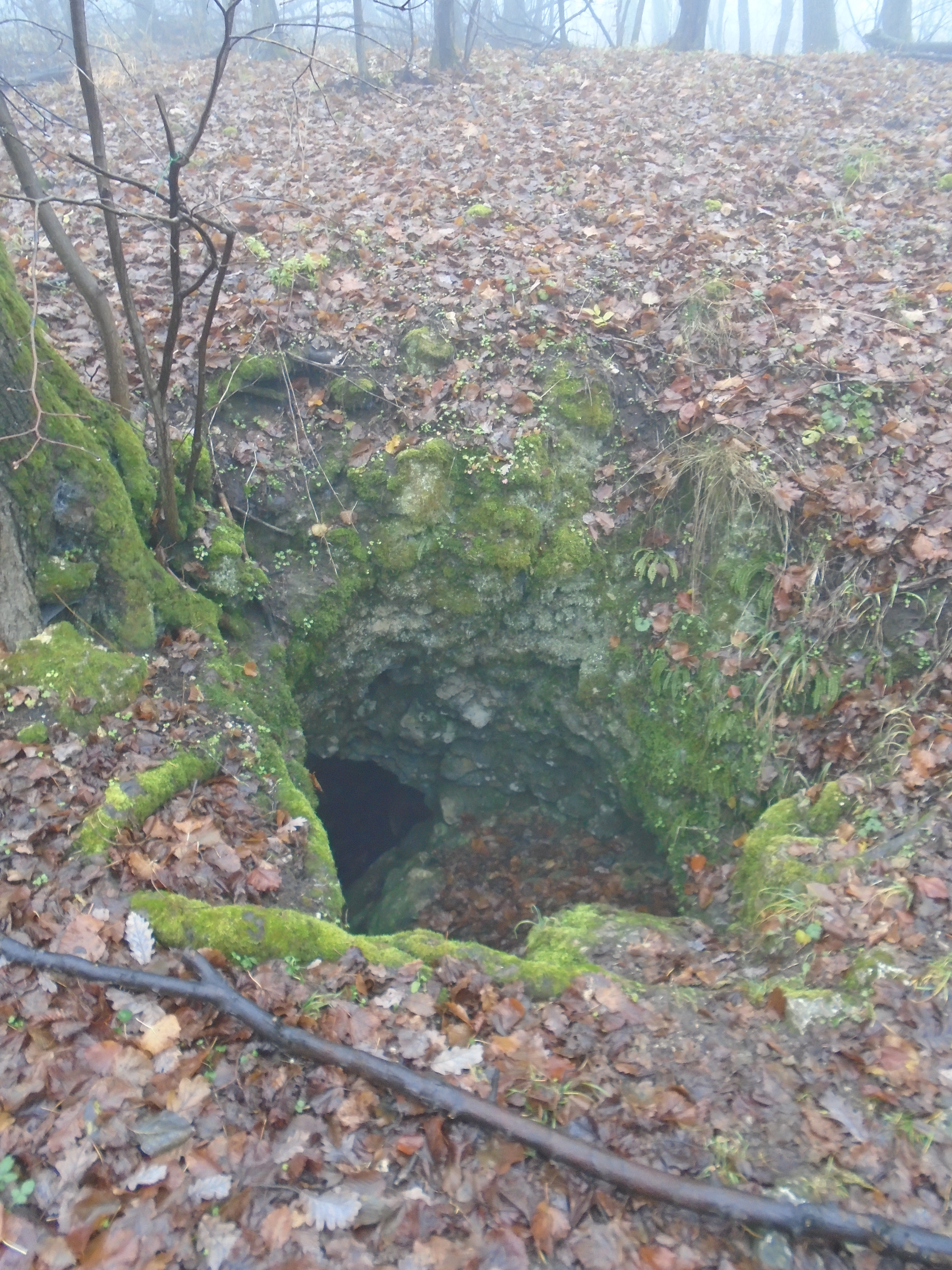 Entrance of Bronz Cave.